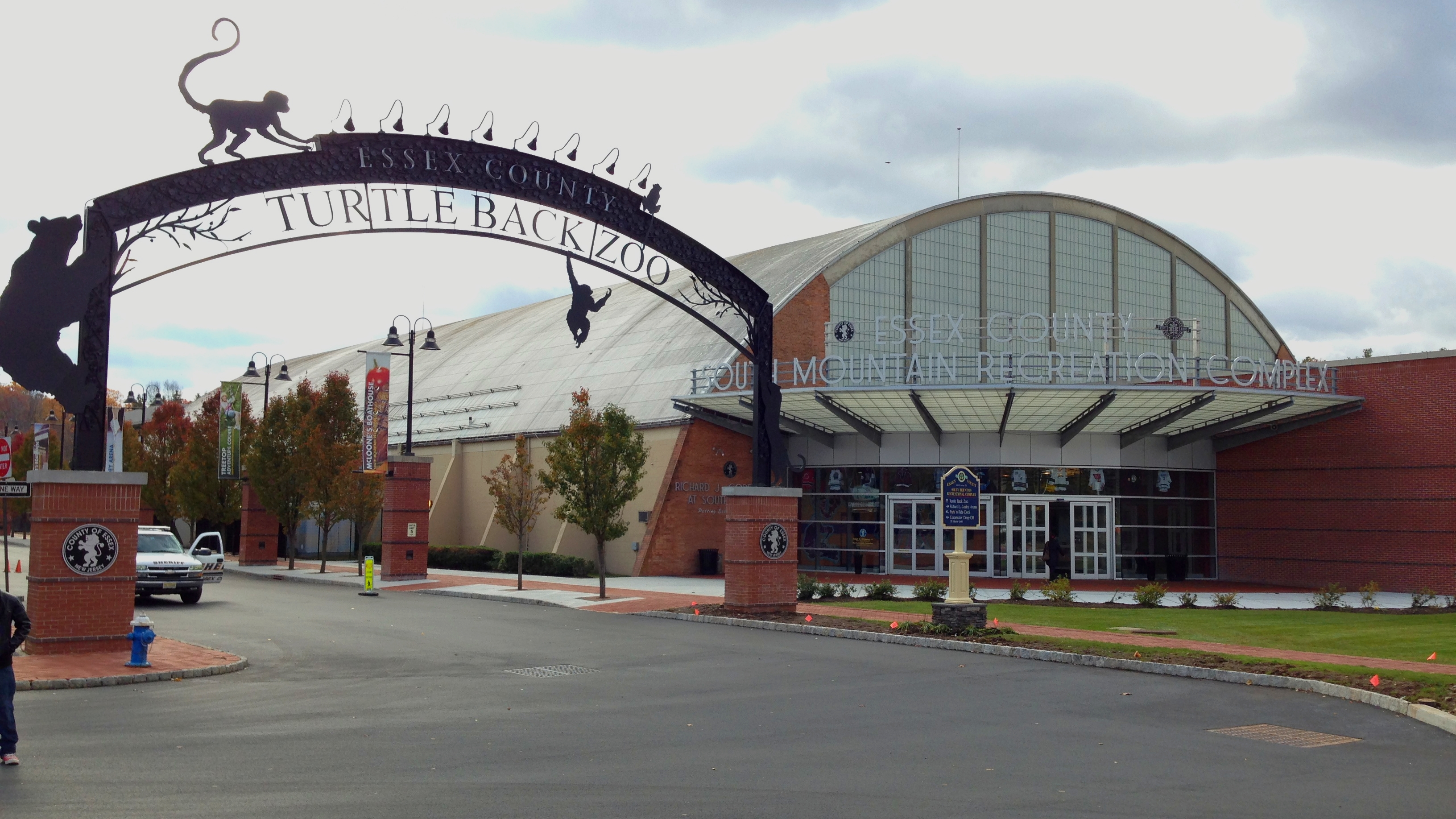 Richard J. Codey Arena (hockey and ice skating) at the South Mountain Recreation Complex of Essex County located in West Orange, New Jersey